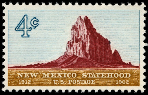 New Mexico statehood 50th anniversary was celebrated with a 4-cent stamp on January 6, 1962. The stamp features a northwestern New Mexican mesa named “Shiprock”.